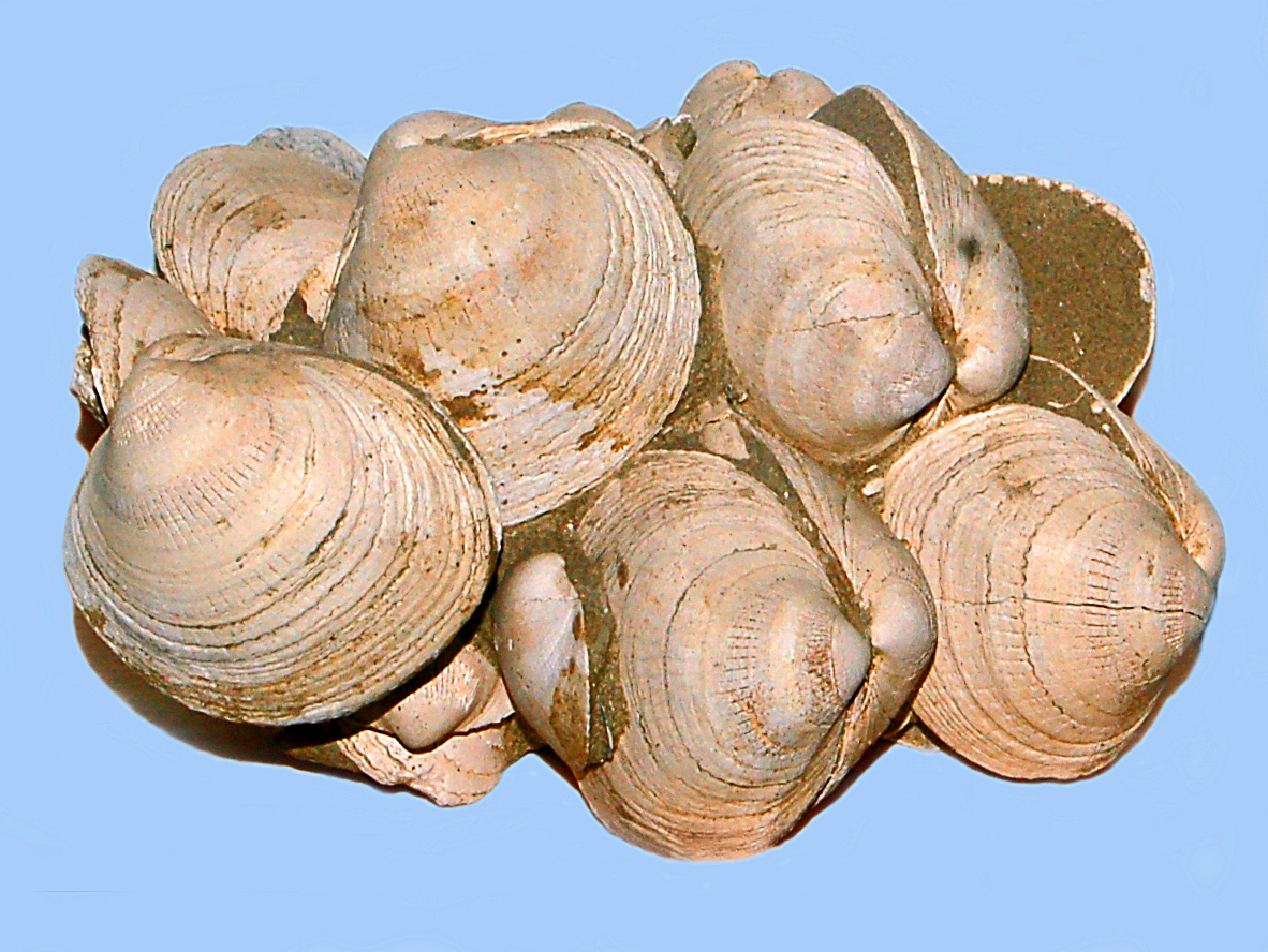 Glycymerys sp. - Upper Pliocene, Asti, Italy